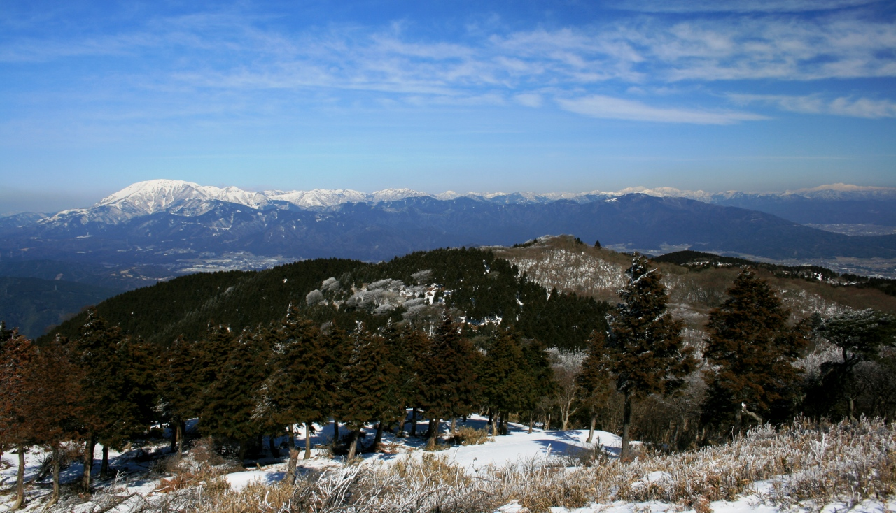 Mount Ibuki from Yōrō Mountains